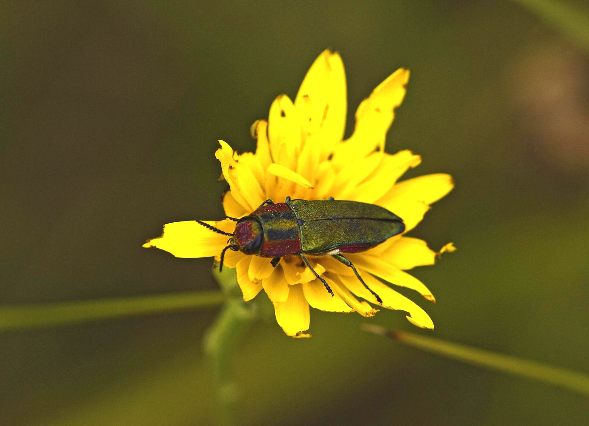 Anthaxia hungarica